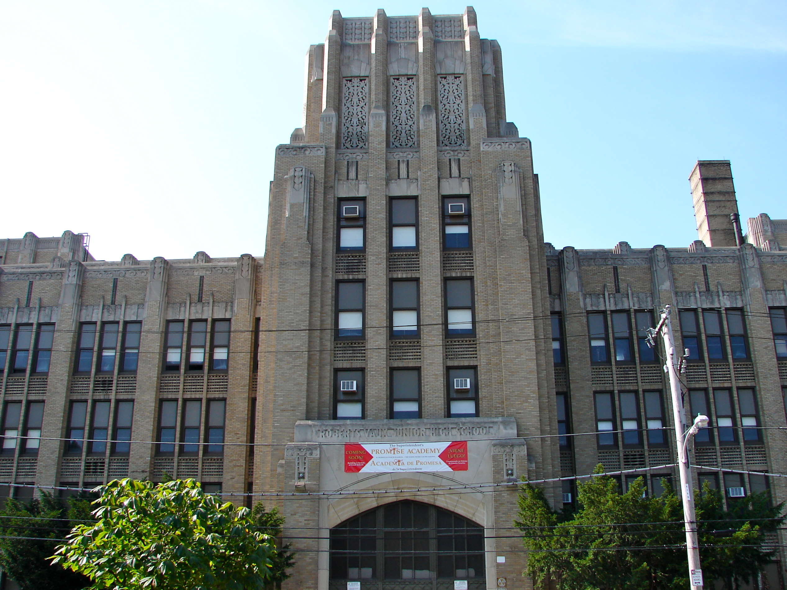 Roberts Vaux Junior High School in Philadelphia, on the NRHP since November 18, 1988. At 2300–2344 West Master St. in the North Central neighborhood of North Philly.